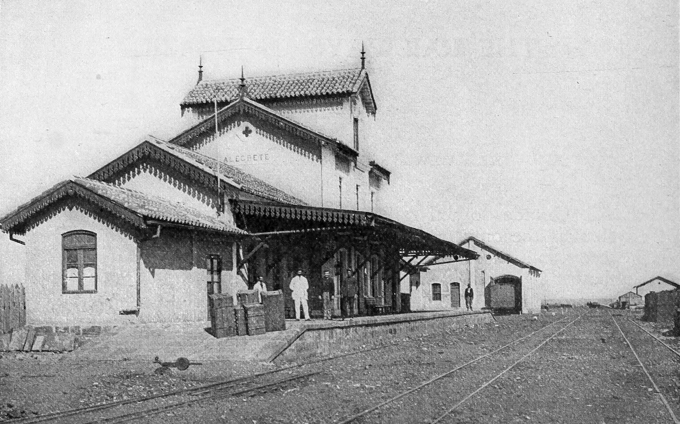 Railroad depot in Alegrete, Brazil. Identifier: cassiersmagaz401911newy Title: Cassier's magazine Year: 1891 (1890s) Authors: Subjects: Engineering Publisher: New York Cassier Magazine Co. Text Appearing Before Image: north ofUruguayana, through Santa Maria,and just north of Porto Alegre, thecapital. The Jacuhy does not flow directlyinto the sea, but into a long laguna,called the Lagoa dos Patos (lake ofdrakes), with the Lagoa Mirim(small lake) beyond, in the south.These long lakes, parallel and closeto the coast, are connected by the RioSao Goncalo, and have an outlet sea-ward between them at Rio Grande.No railway has been built betweenPorto Alegre and Rio Grande, thetwo most important towns and har-bours of the State, as sea-going ves-sels can ply along the laguna. Butboth towns (between which there isno little jealousy) are joined to thecentre of the State, whence the com-mon trunk line continues beyond toUruguayana. The line follows thefoot of the northern plateau, alongthe Jacuhy and Ibicuhv valleys, run-ning from Porto Alegre, throughSanta Maria, Cacequy, and on toUruguayana, on the west frontier.This is the main line of the obsoletePorto Alegre & Uruguayana Rail- 17 iS CASSIERS MAGAZINE Text Appearing After Image: ALEGRETE, A TYPICAL STATION ON THE RIO GRANDE RAILWAY way (P. A. U. Ry.). The RioGrande line runs through the impor-tant towns of Pelotas and Bage, andjoins the P. A. U. main line atCacequy. The Rio Grande and Bageportion was built by a separate com-pany. But it was necessary, besides, tojoin the State with Rio de Janeiro, inthe north, and southward with Monte- video, and this has been done fromthe centre. The southern line starts from apoint a few miles out of Cacequyand runs due south to Santa Annade Livramento, the frontier stationwhence the northern extension of theCentral of Uruguay Railway con-tinues through to Montevideo. On the other hand, an old Belgian